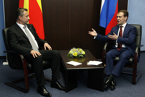 ST PETERSBURG. With President of Macedonia Branko Crvenkovski.